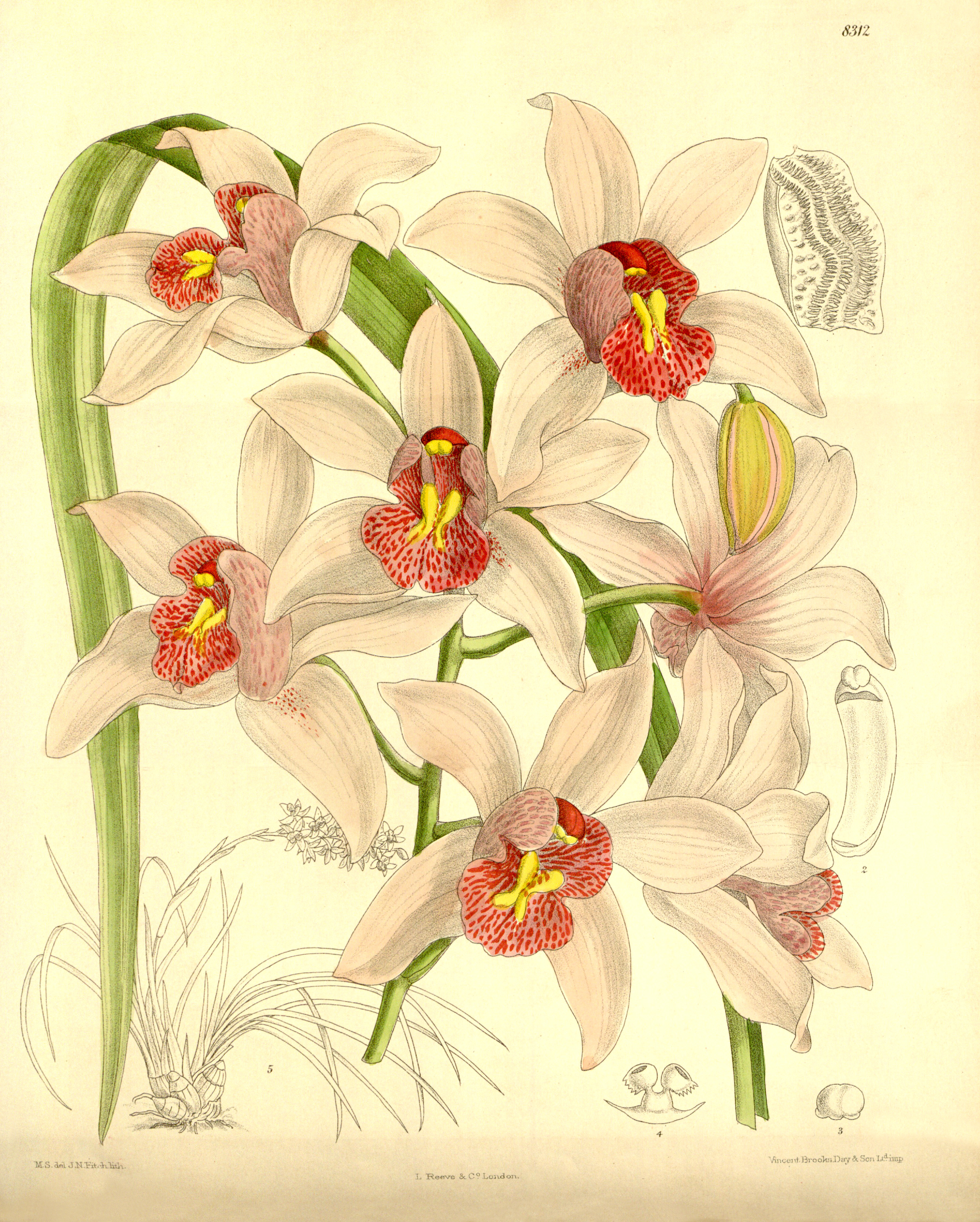 Illustration of Cymbidium insigne